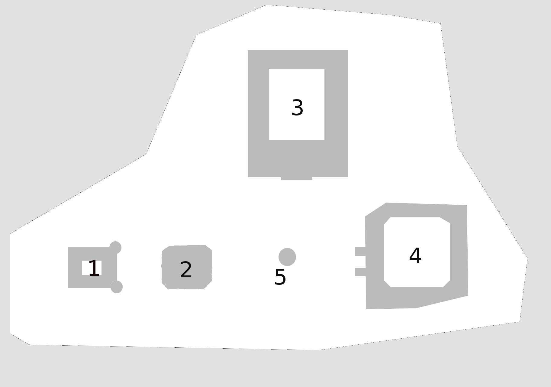 top-down plan of Lab-e hauz complex in Buhara:1 — Divan-Beghi Khanqah; 2 — hauz (watertank); 3 — Koukeldach madrasa ; 4 — Divan-Beghi Мadrasah; 5 — Nasreddin mоnument